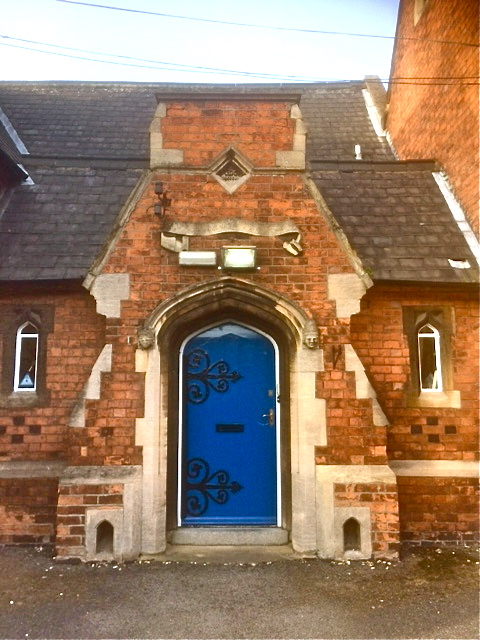 Eastgate School Lincoln. Architect William Adams Nicholson